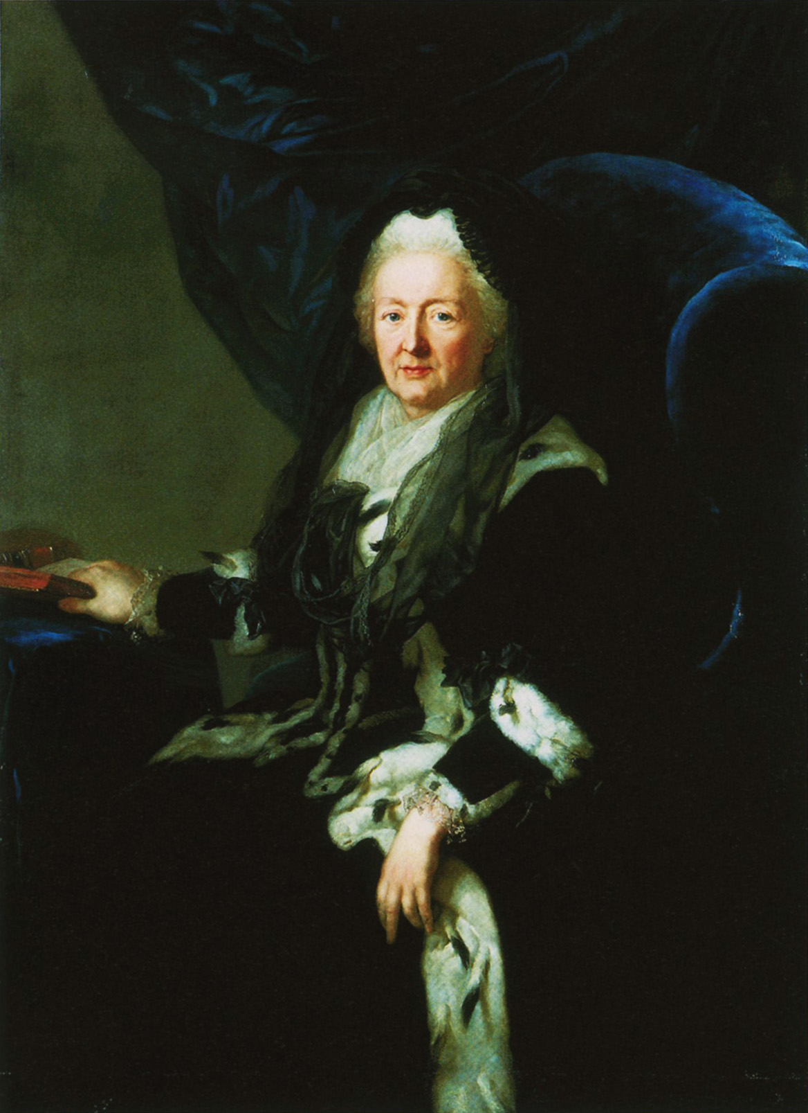 Queen Elisabeth Christine in Widow's Weeds